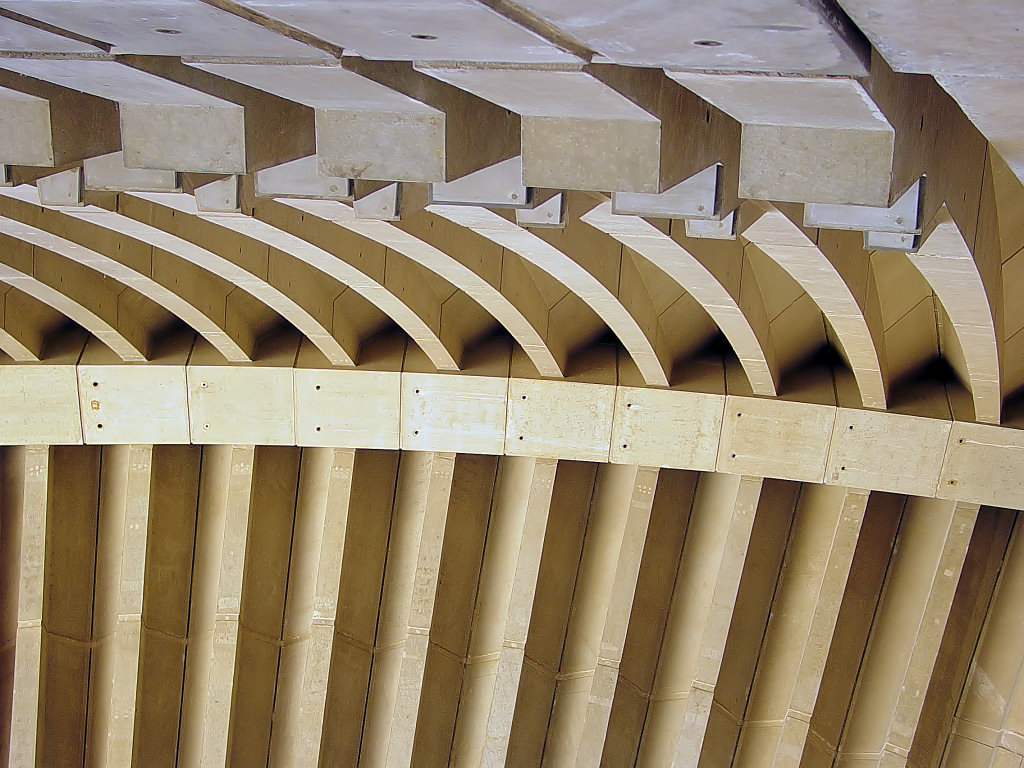 The ribs of the opera house sails from inside the building. The sails were originally designed as parabolic, but after failures of the design in wind tunnel tests, they were changed to a spherical design. Photo taken and supplied by Brian Voon Yee Yap.